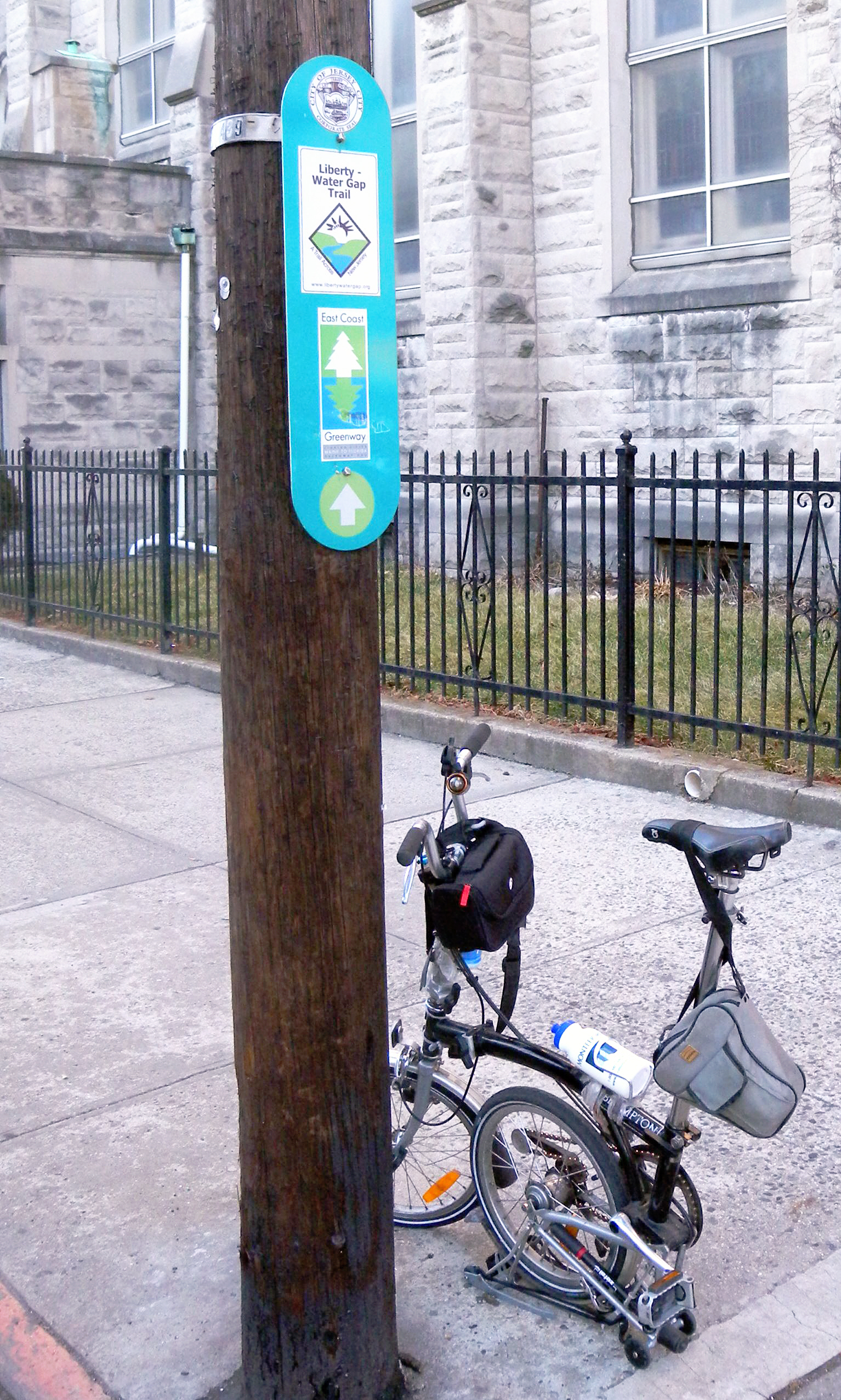 Looking north from Summit Avenue at sign designating Belmont Avenue for Liberty Water Gap Trail and East Coast Greenway in shade on a sunny afternoon.